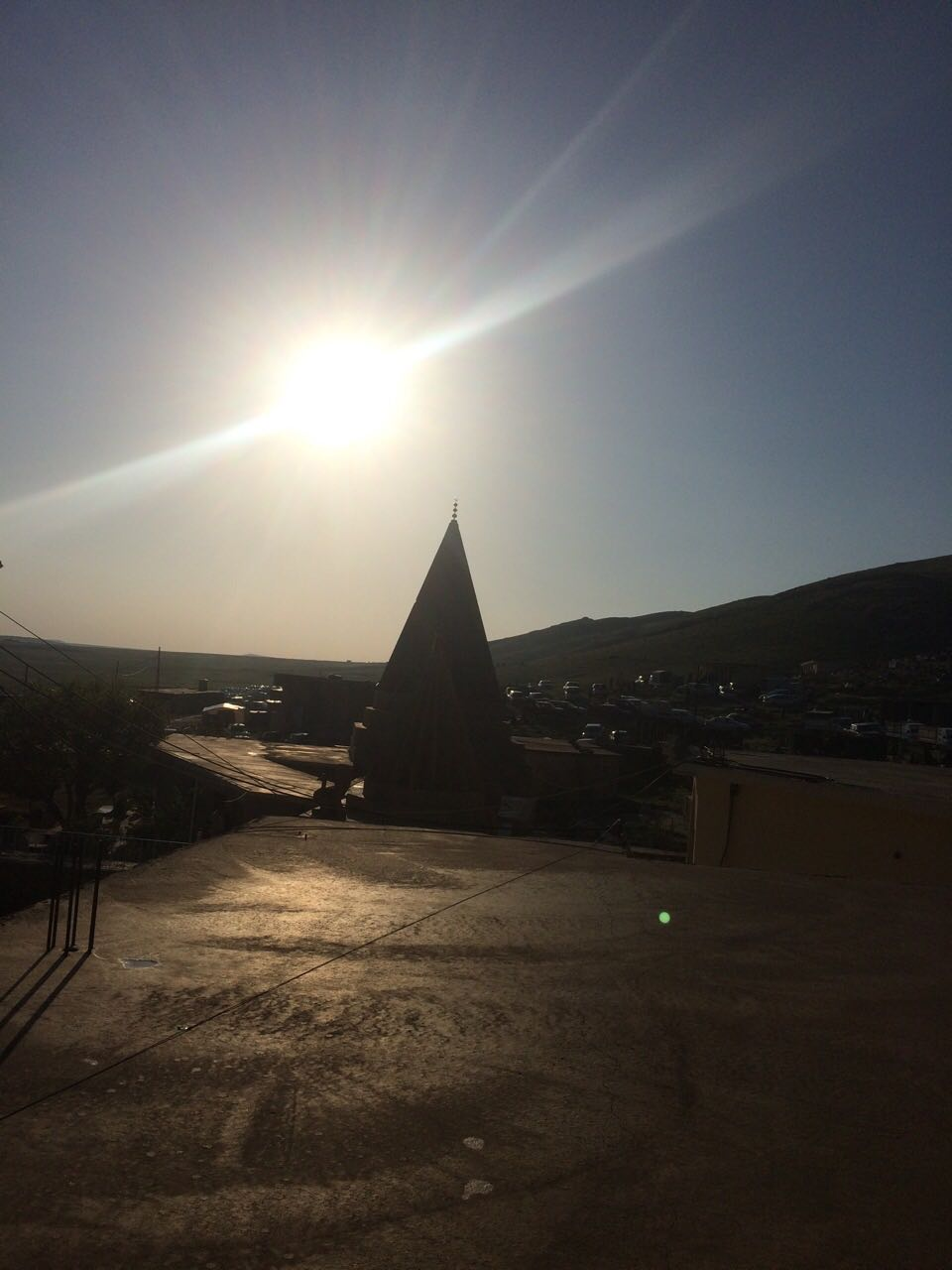 sharaf aden temple